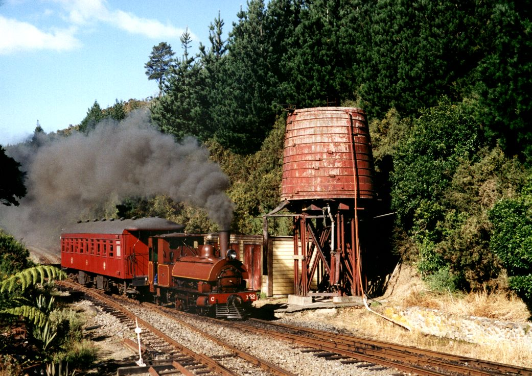 Dübs C class loco 132 on the Silver Stream Railway, New Zealand